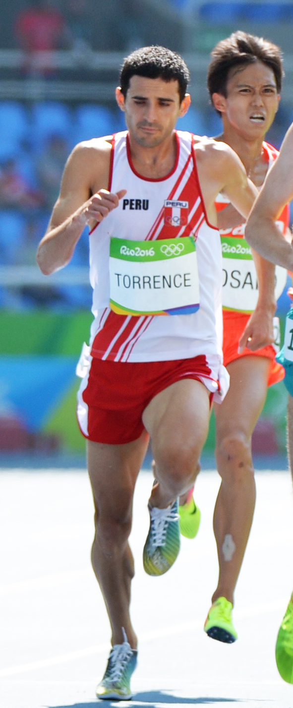 David Torrence in the second heat of men's 5,000-meter run, Wednesday, Aug. 17 at the Rio Olympic Games in Rio de Janeiro. U.S. Army photo by Tim Hipps, IMCOM Public Affairs #SoldierOlympians #ArmyOlympians #ArmyTeam #GoArmy #TeamUSA #RoadToRio #Olympics #ArmyStrong